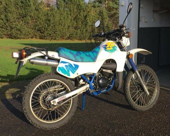 Picture on a white Suzuki TS50